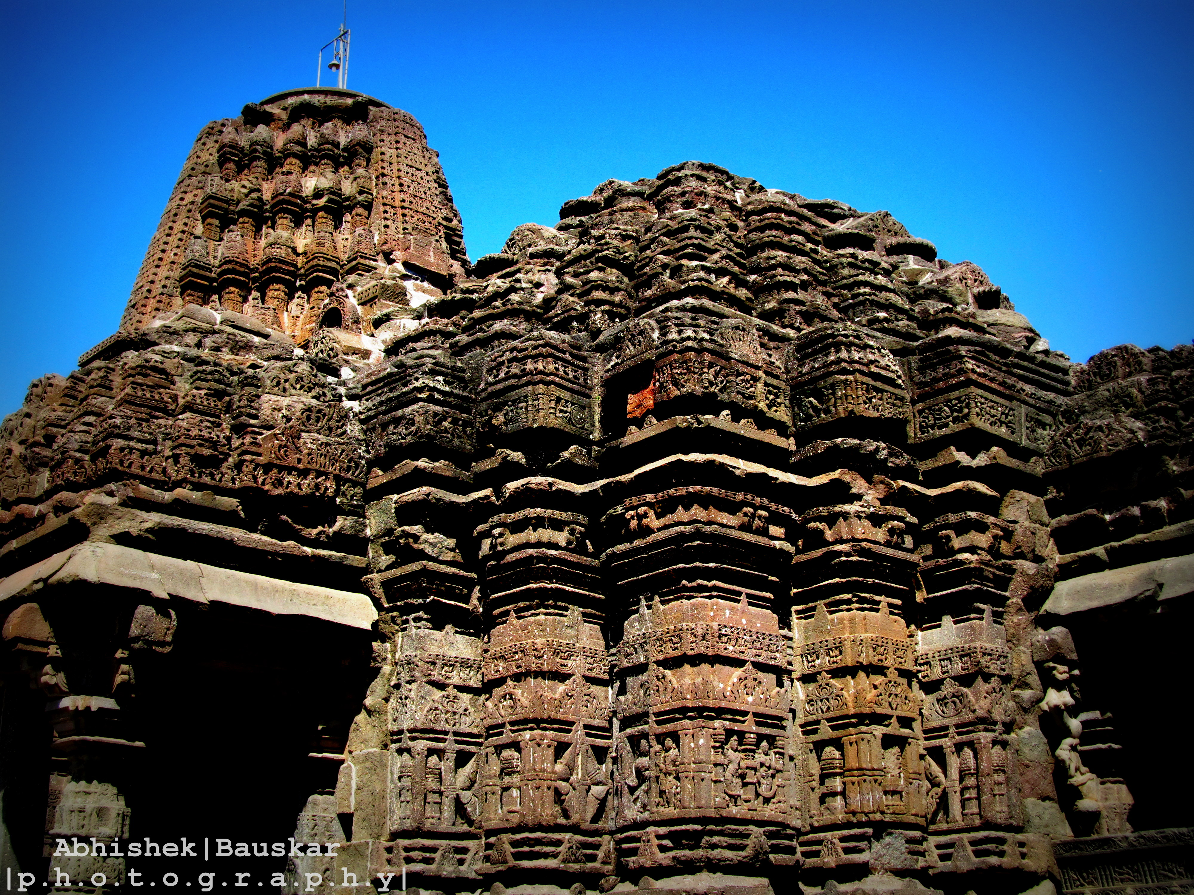 This is the 2000 years old temple at Sinnar near Nasik, Maharashtra, India...not 'built' but 'carved' in a single stone in the era of Govinddevrai Yadav...!!